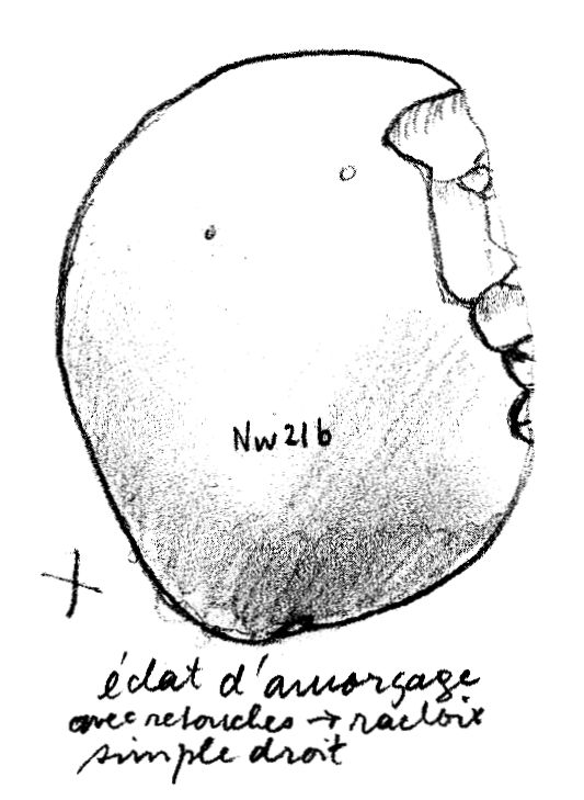 Neolithic artefact. Drawing by Léopold Reichling (1921-2009).